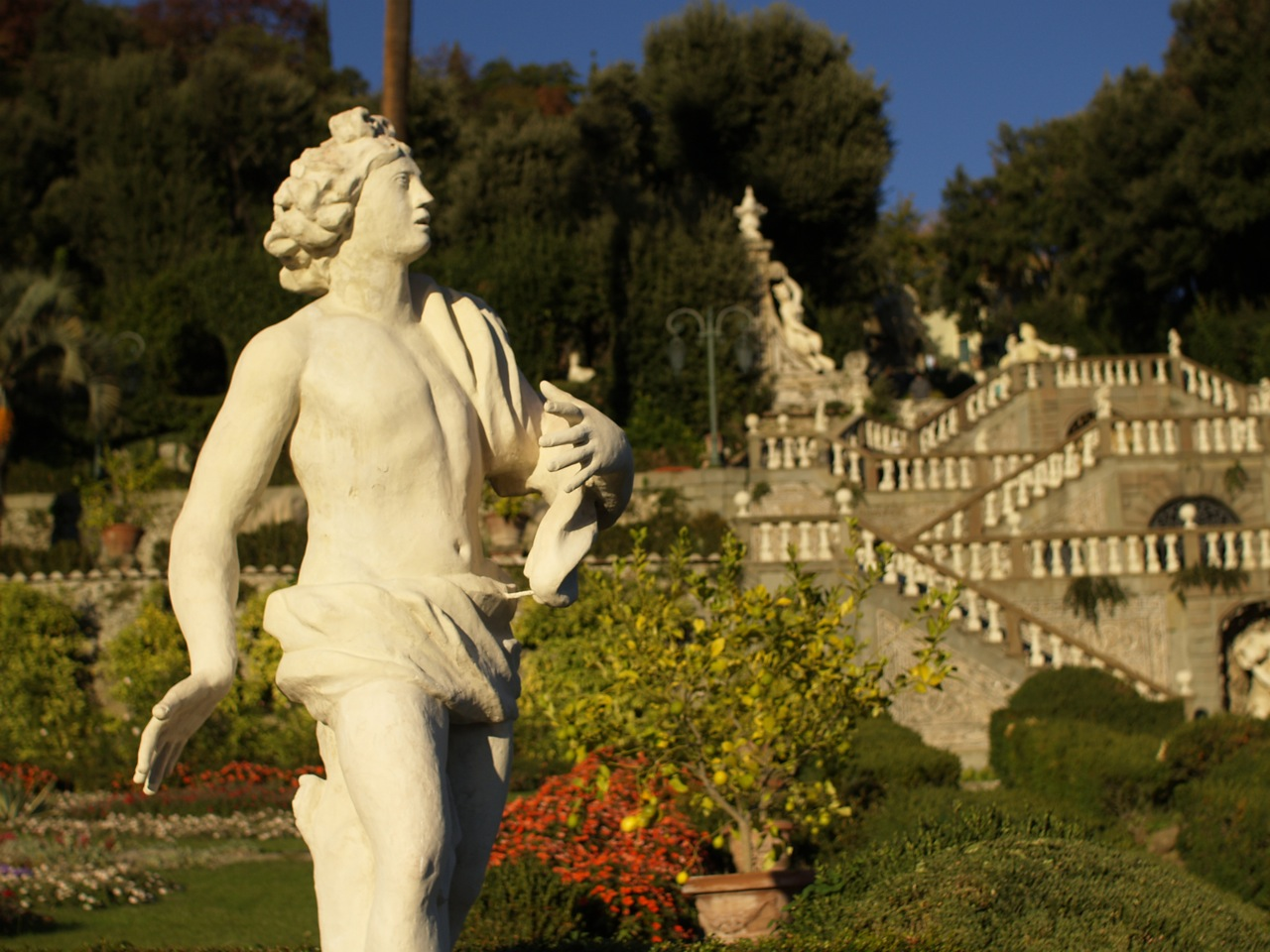 see above